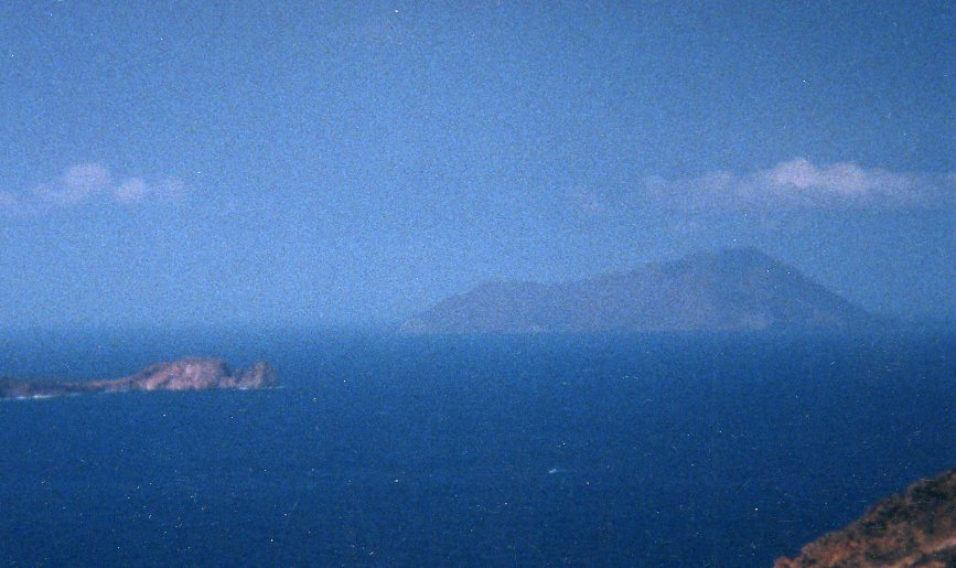 This is Antimilos from my own work and camera taken from Milos Island.